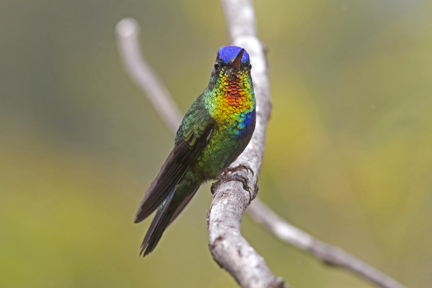 A Costa Rican hummingbird.